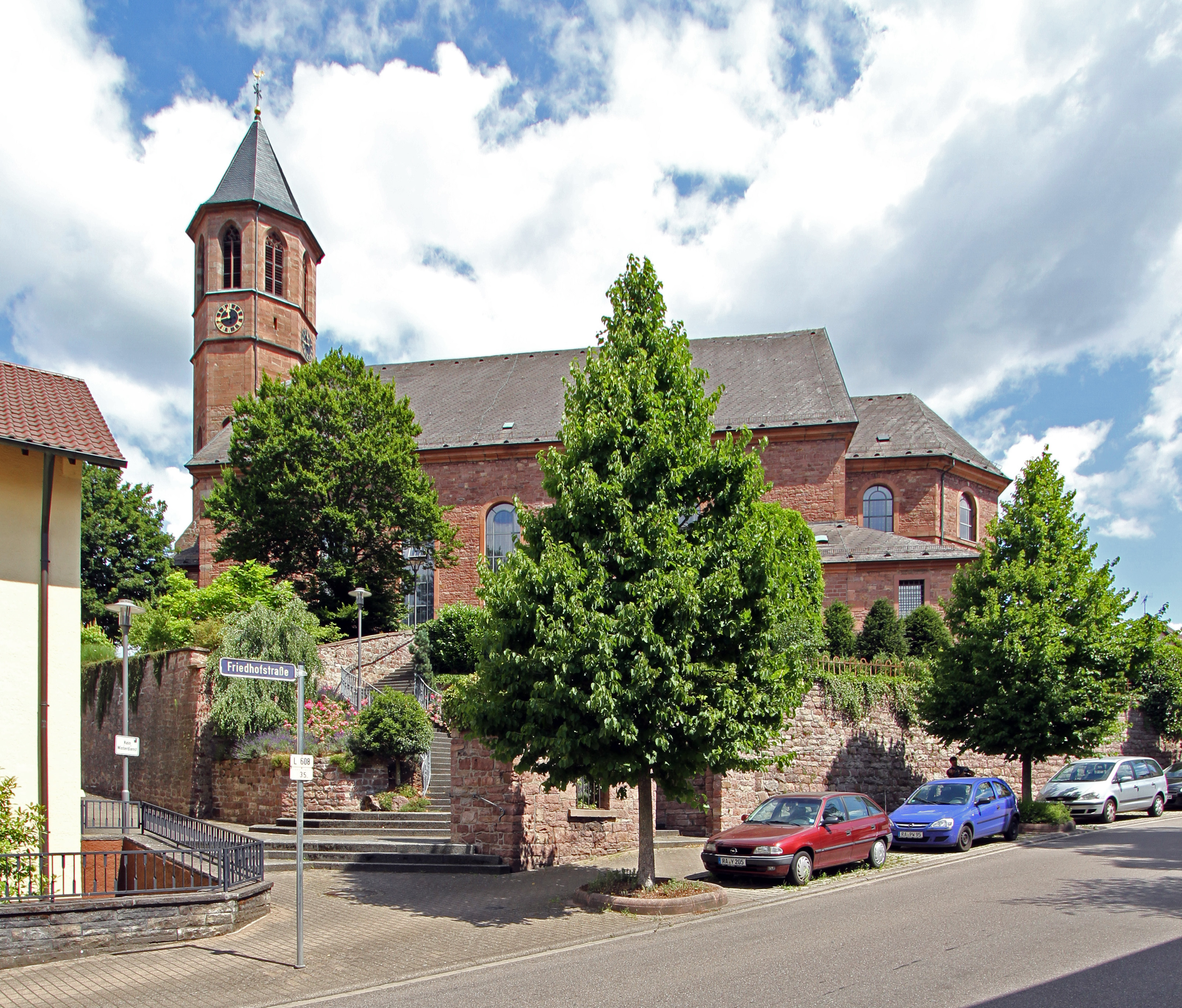 Church of St. Cyriak in Malsch.